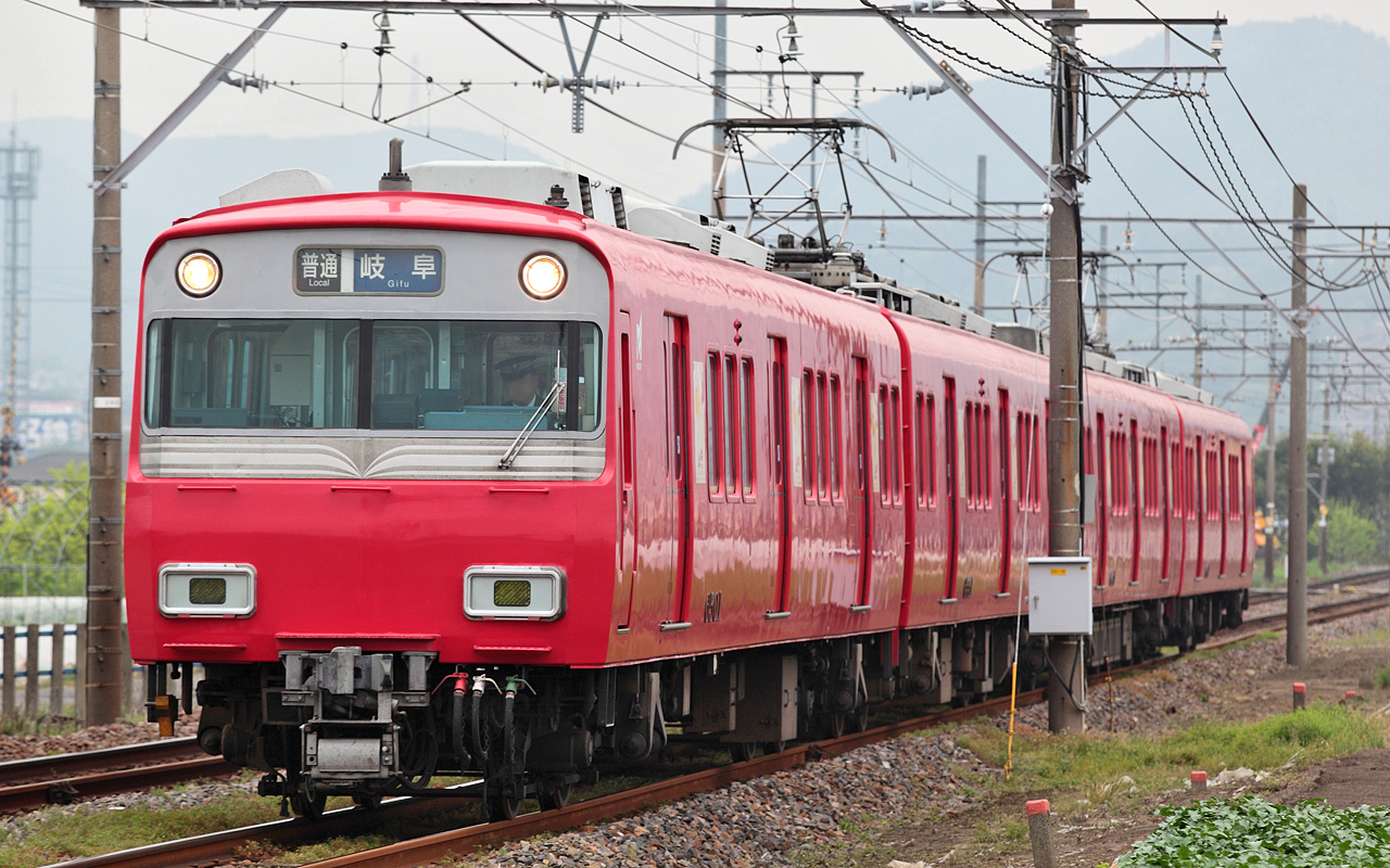 Meitetsu 6500 series EMU ( 6501F ), between Unumajuku Sta. and Haba Sta.